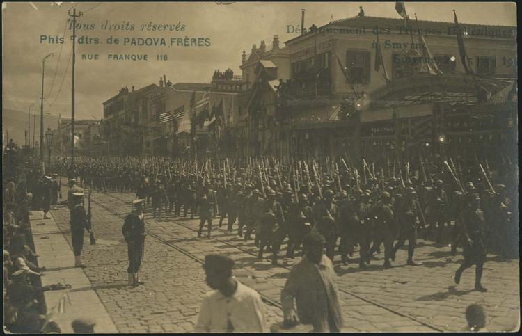 Débarquement des Troupes Helleniques à SmyrneTürkçe: İzmir'de Yunan birliklerinin karaya çıkması